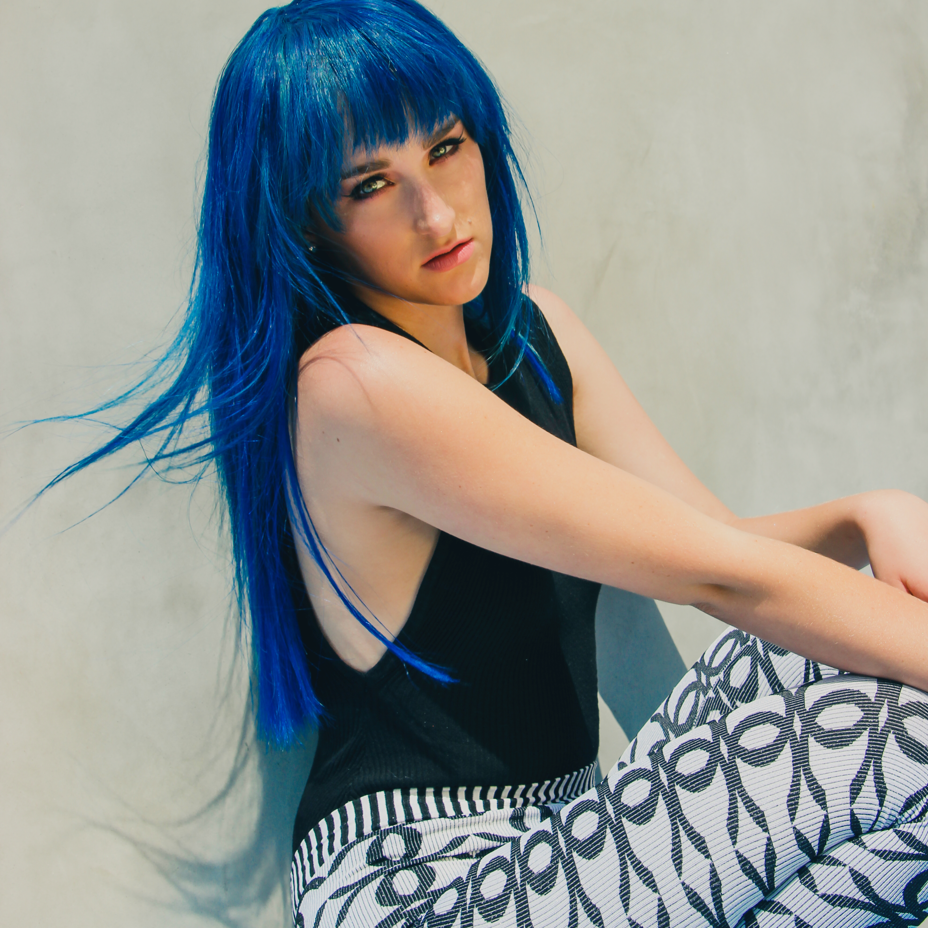 The American pop singer and actress Camryn Magness, normally known just as Camryn, in 2017.